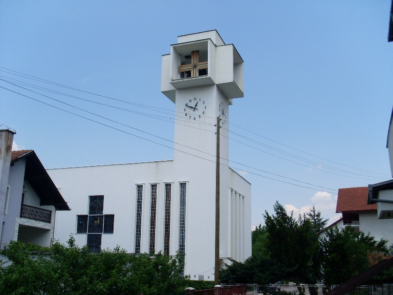 St.Leopold Mandića church in Maglaj